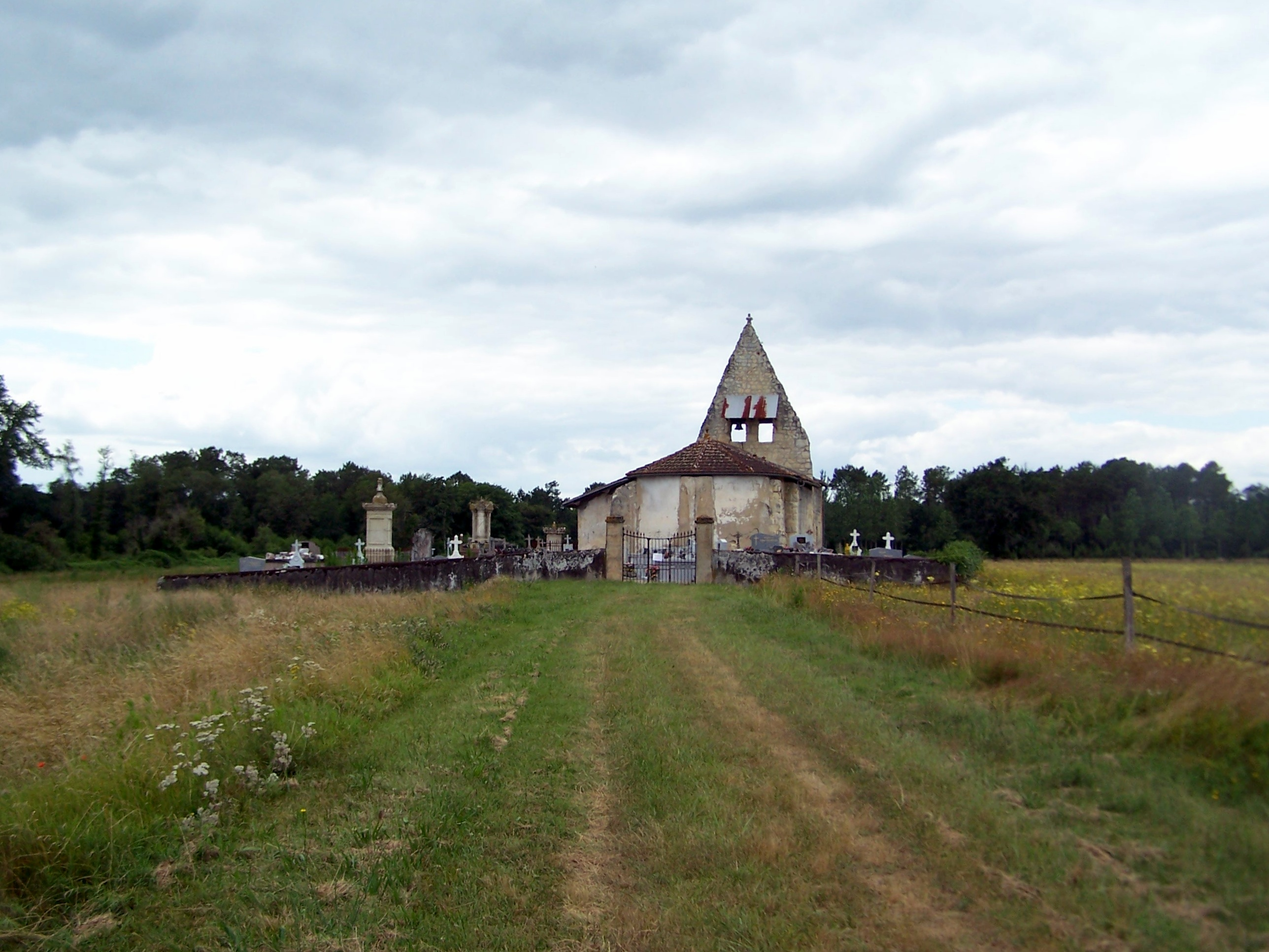 Church Notre-Dame of Sillas (Gironde, France)